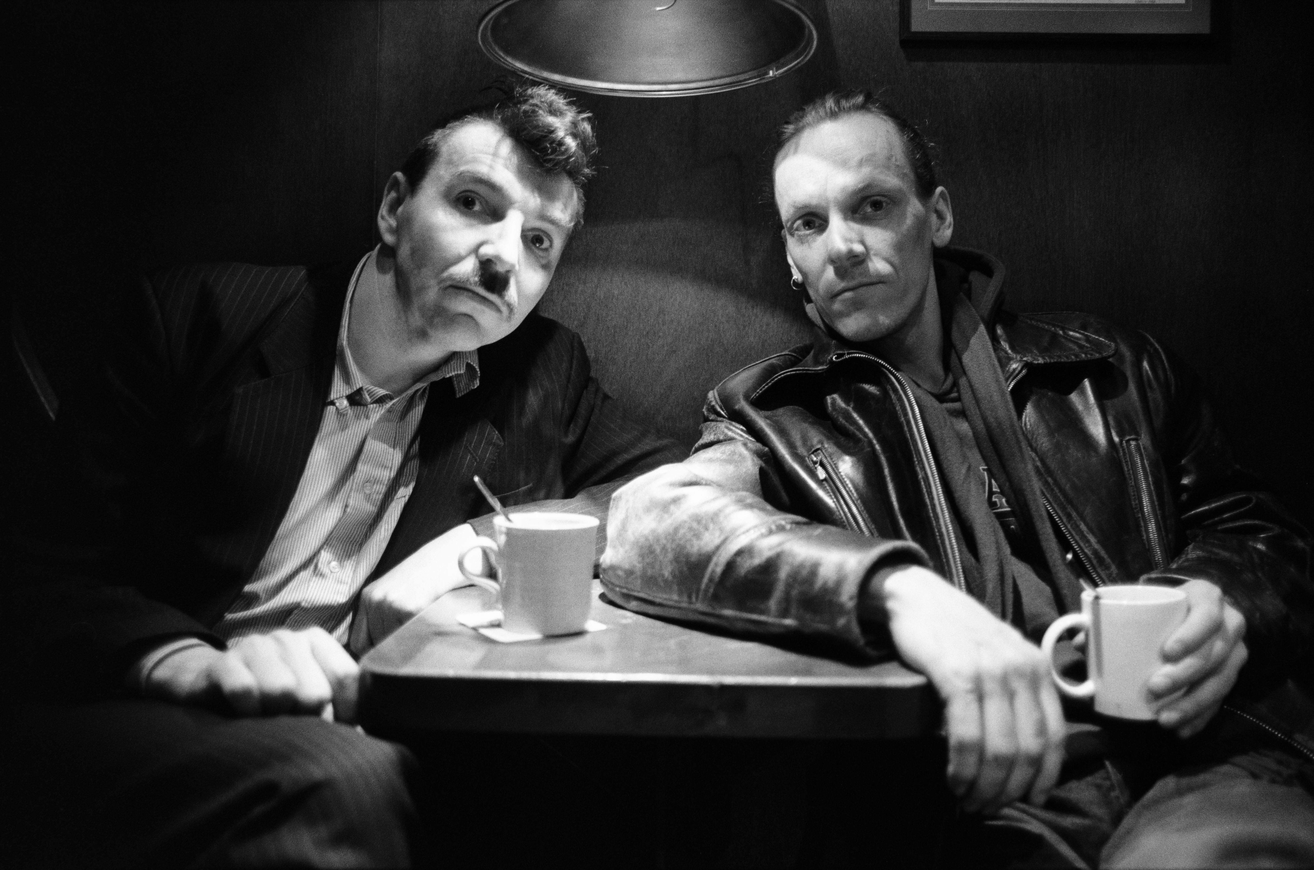 Photograph of the Finnish musicians Kauko Röyhkä and Timo Vikkula.